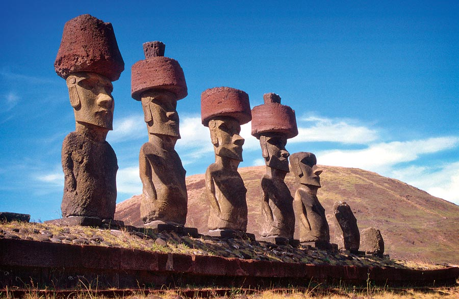 Moais (stone statues) on Ahu Nau, Anakena Beach, Easter island